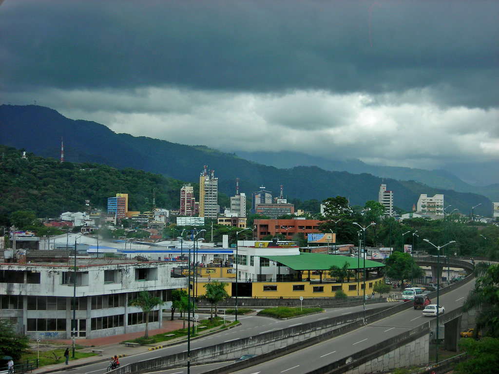 City of Monteria, Colombia